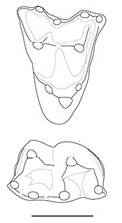 Peradectes upper and lower molars. Scale bars equal 1 mm